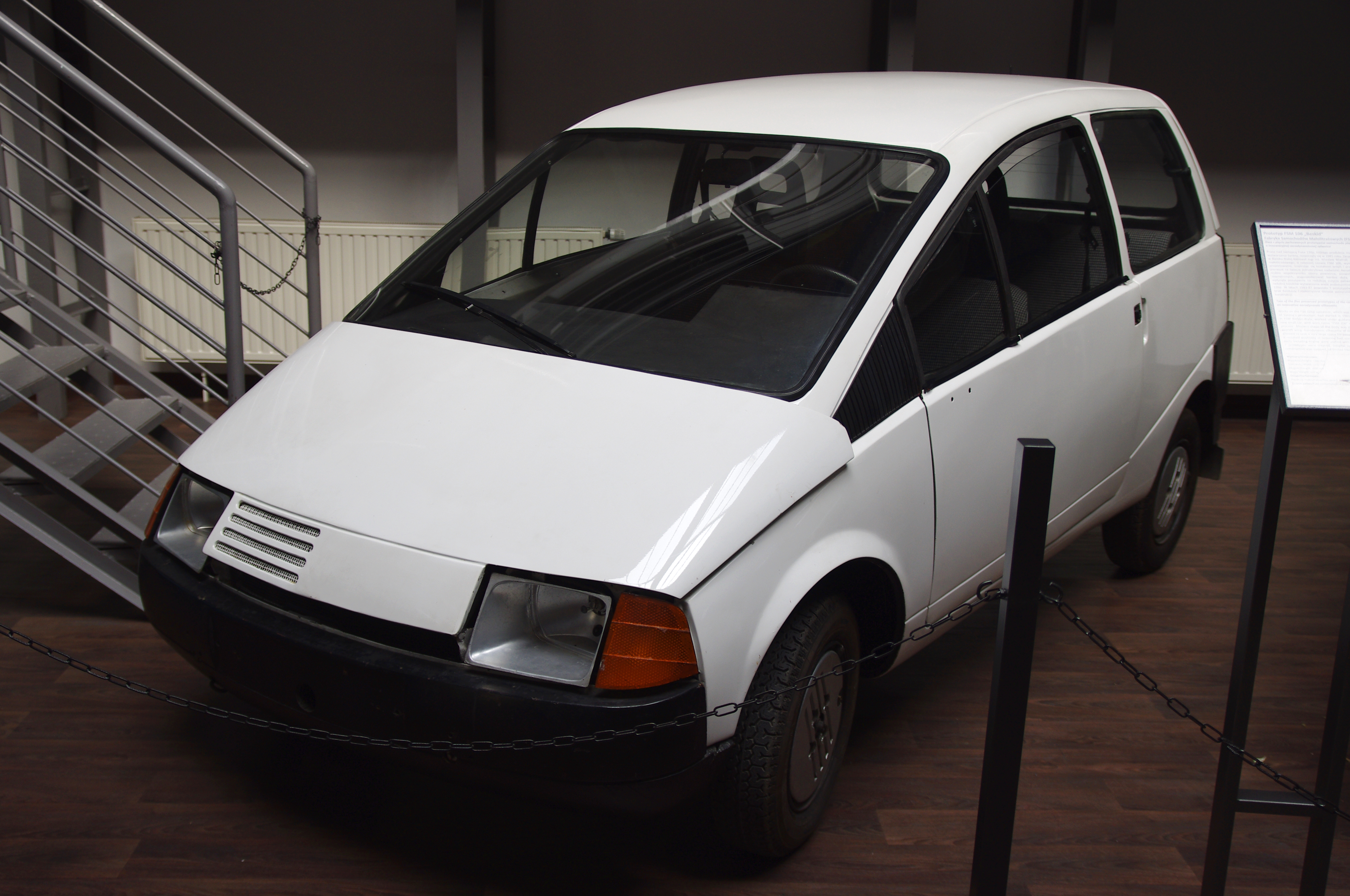 FSM Beskid 106 prototype in the The Museum of Municipal Engineering in Kraków